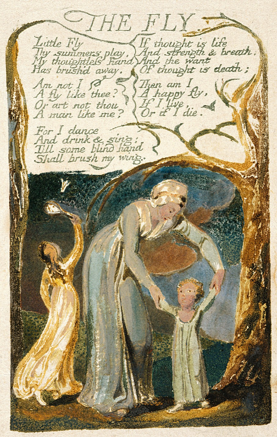 Songs of Innocence and of Experience copy F object 48 THE FLY 1794